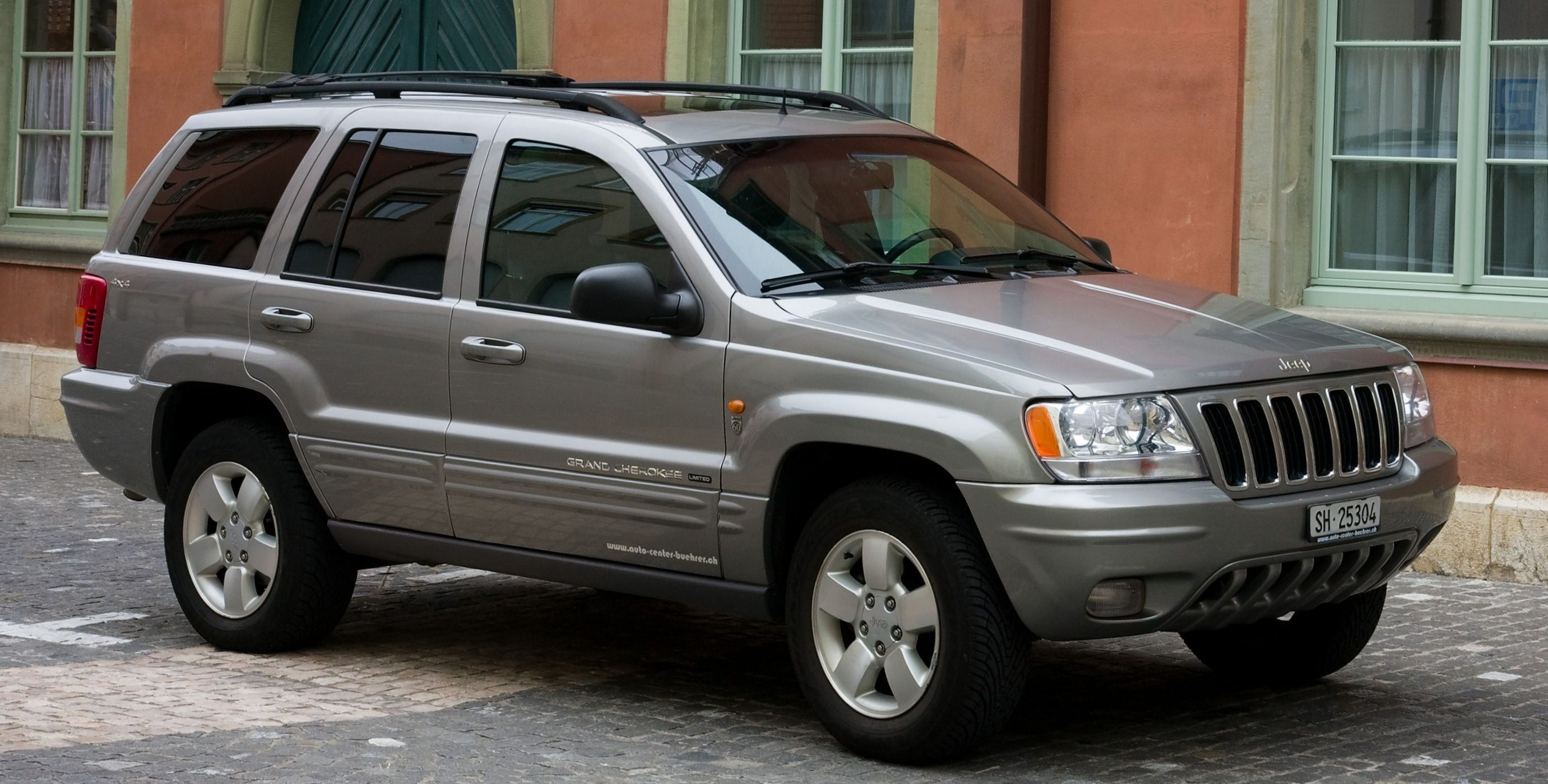 Jeep Cherokee